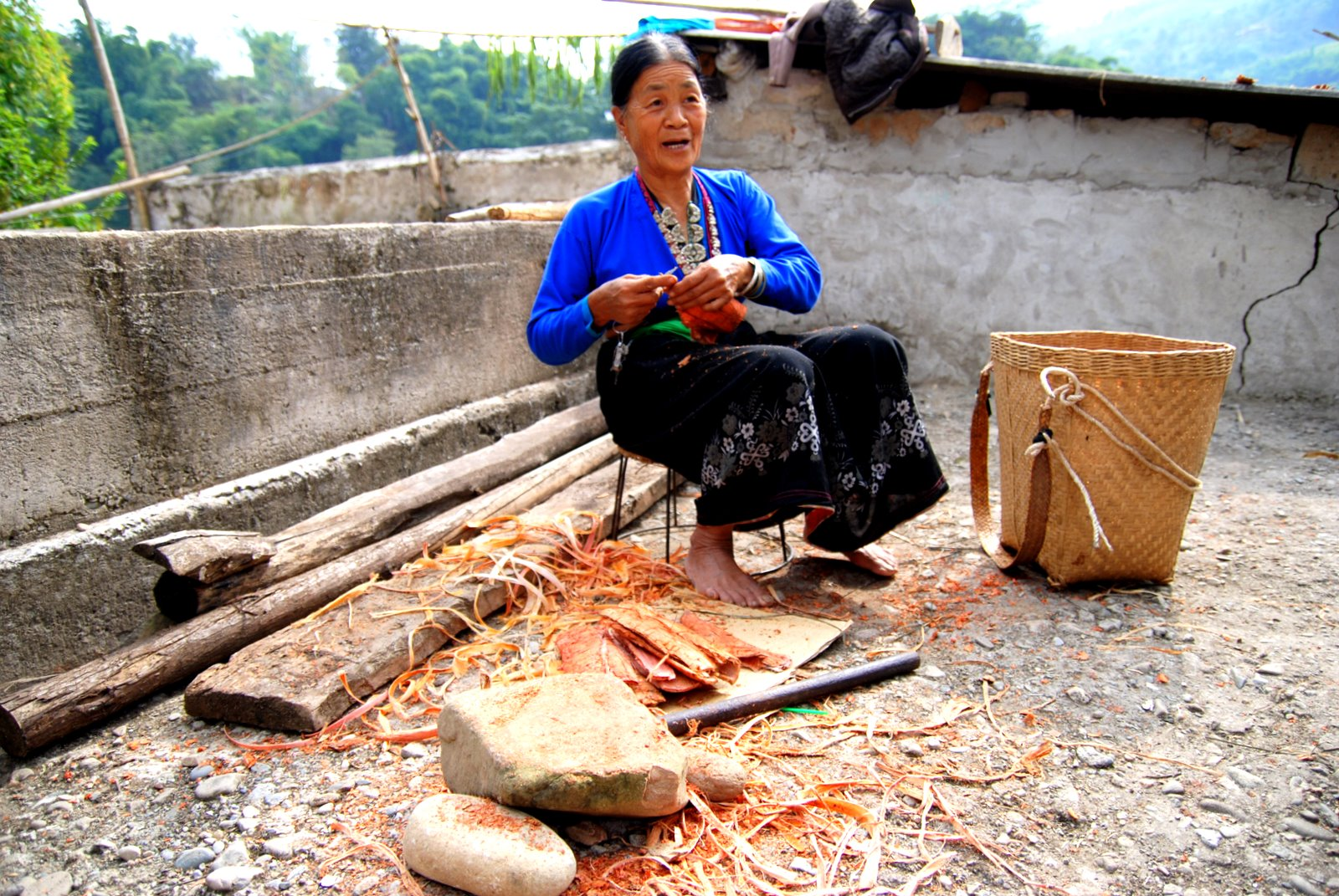 Tai Dam ethnic minority in Laomeng